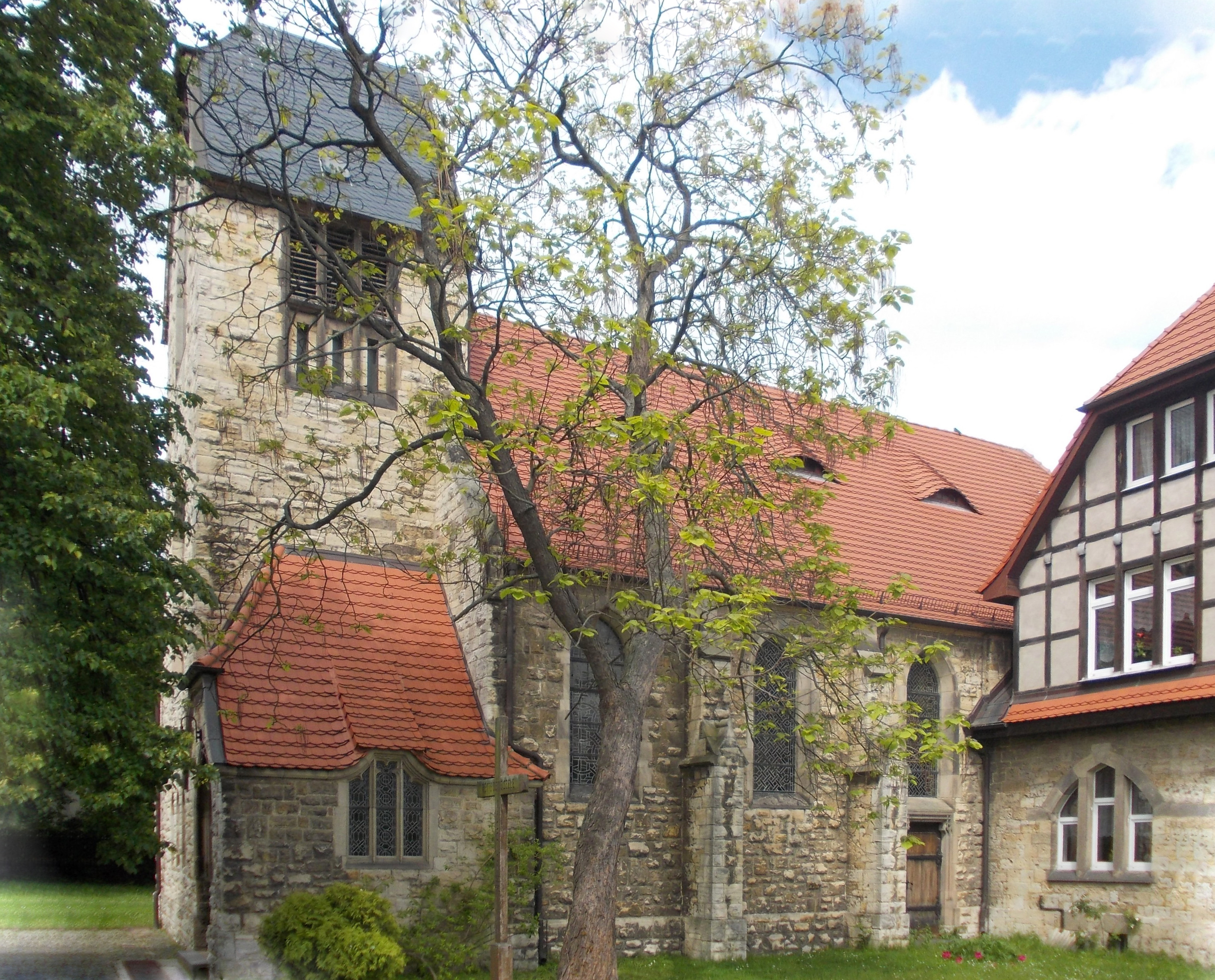 Roman Catholic St. Salvator church in Querfurt (district: Saalekreis, Saxony-anhalt)